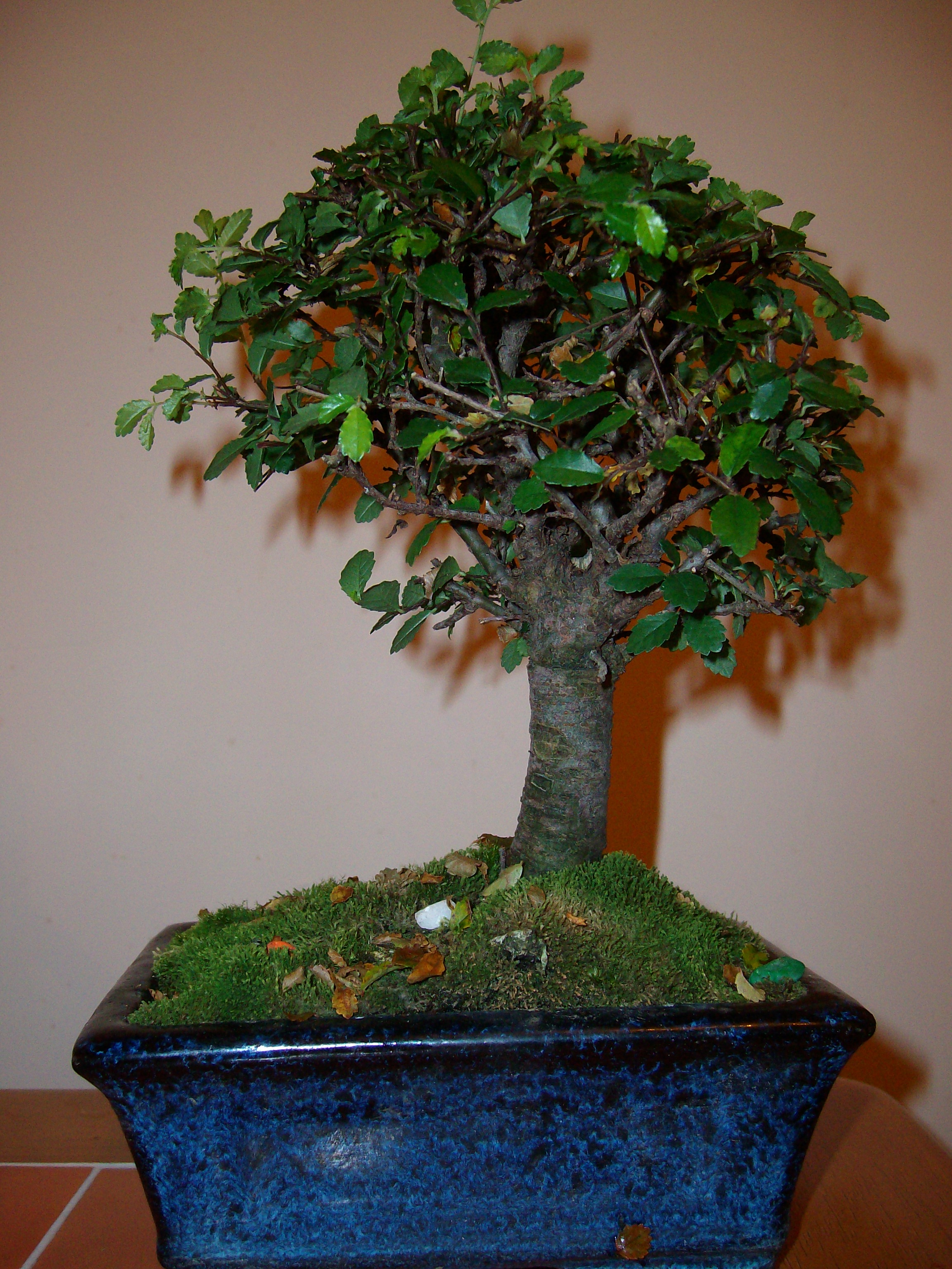 Photo of a Ulmus Parvifolia Bonsai Tree